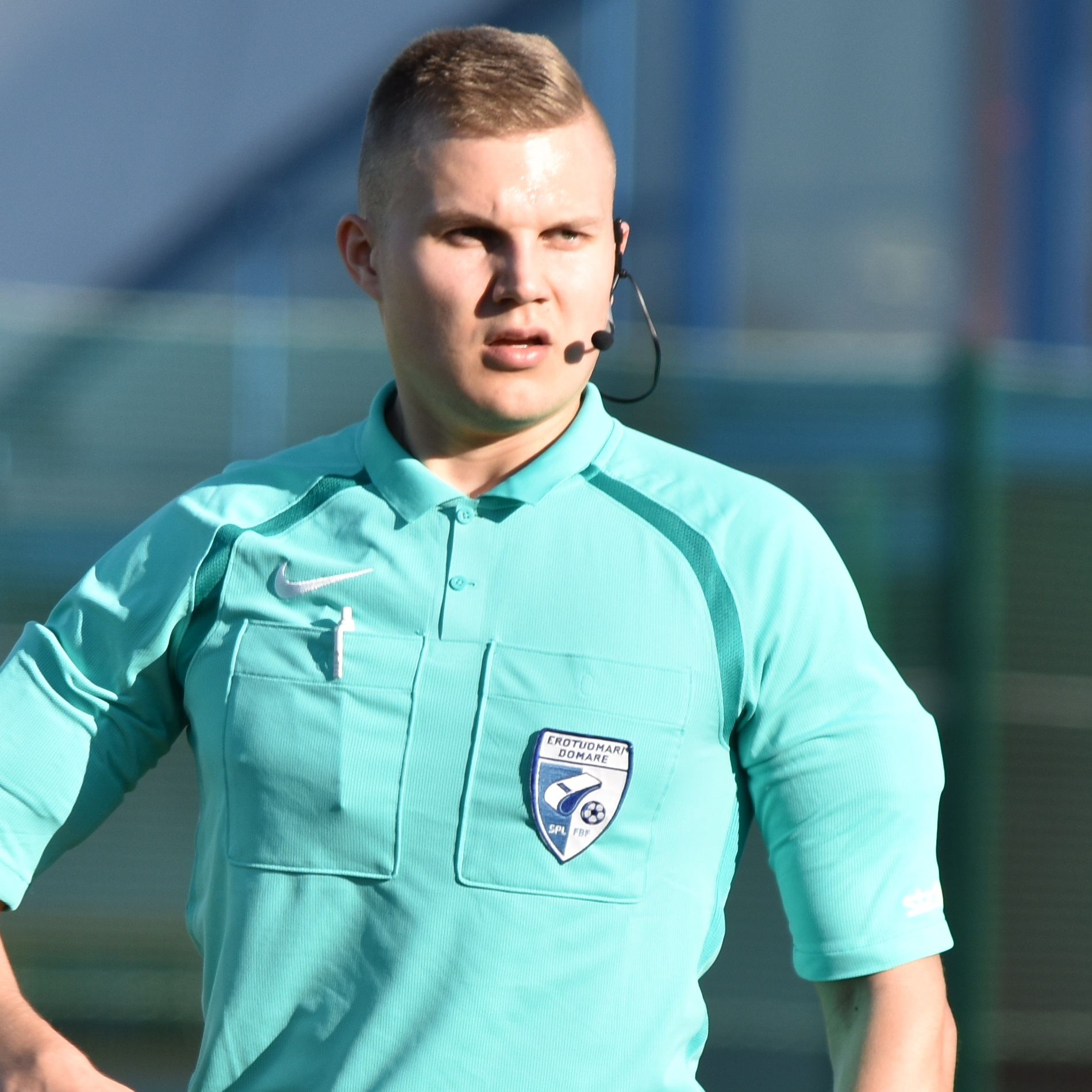 Football referee Atte Jussila